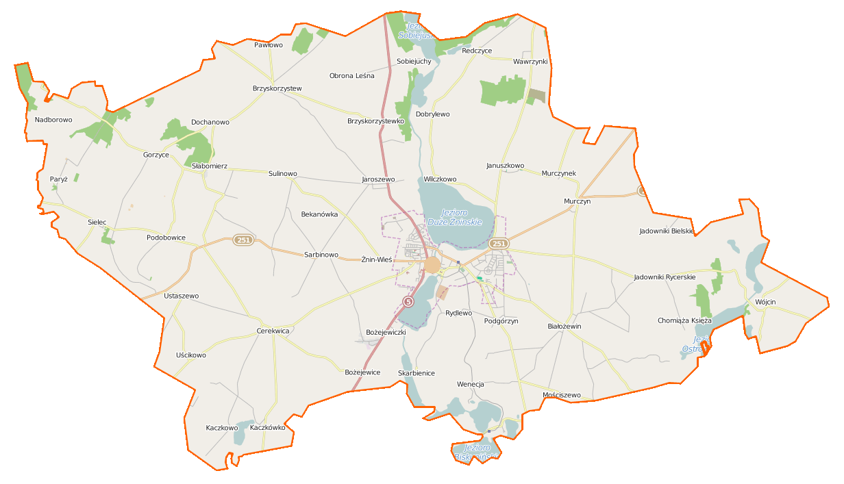 Map of Gmina Żnin, Poland This map of Żnin (gmina) was created from OpenStreetMap project data, collected by the community. This map may be incomplete, and may contain errors. Don't rely solely on it for navigation. Border coordinates52.928417.5053←↕→17.928052.7816